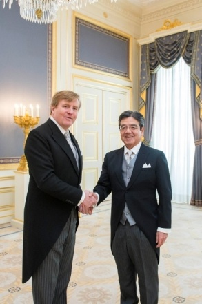 Hiroshi Inomata, Ambassador to Netherlands, presented his diplomatic credentials to King Willem-Alexander at Noordeinde Palace in The Hague Municipality, South Holland Province on March 23, 2016.